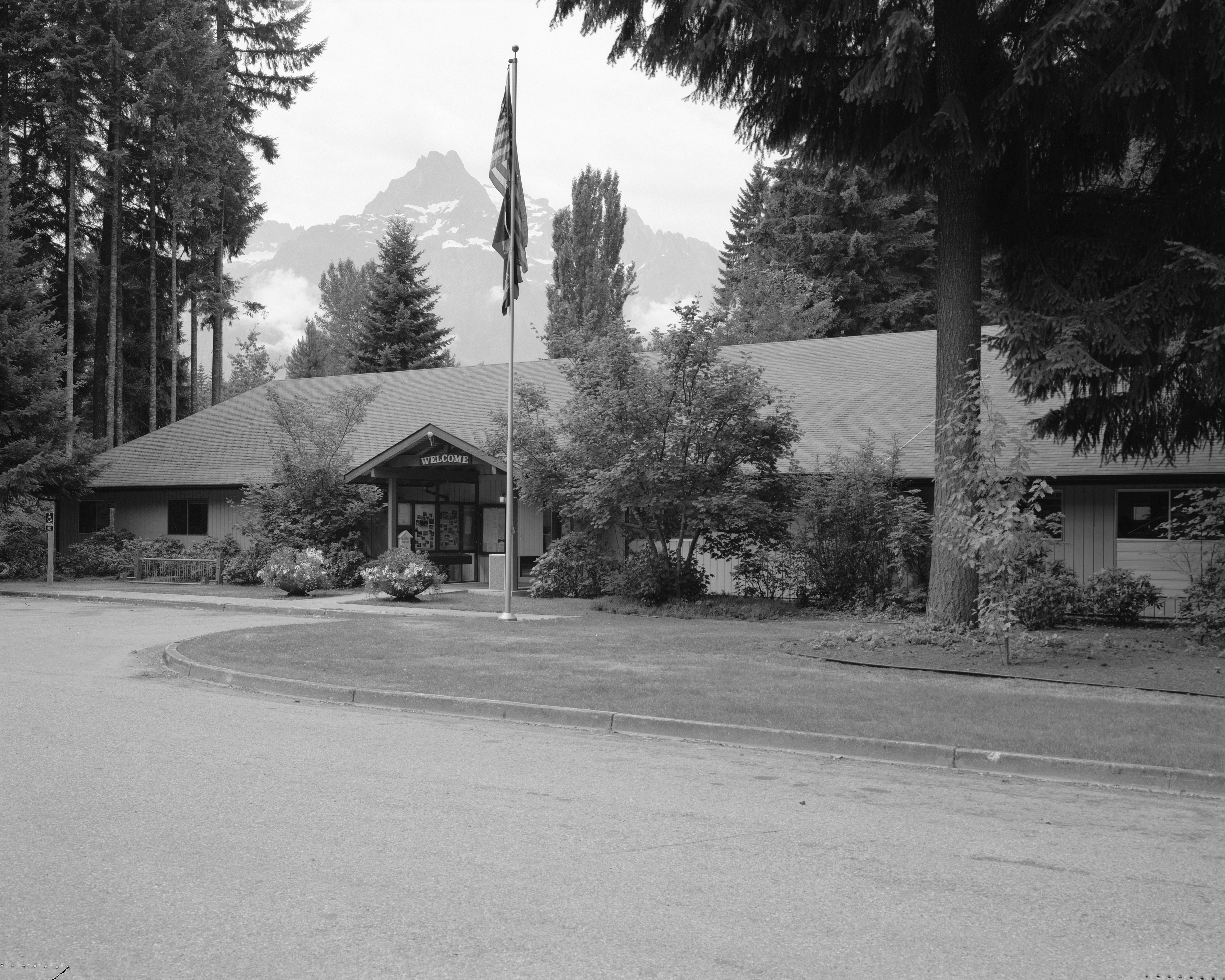 EAST FRONT OF OFFICE, BUILDING 2013; LOOKING APPROXIMATELY SOUTHWEST. WHITEHORSE MOUNTAIN IN BACKGROUND - Darrington Ranger Station, Building No. 2013, 1405 Emmens Street, Darrington, Snohomish County, WA